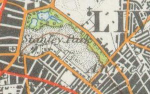 Stanley Park map in 1945.